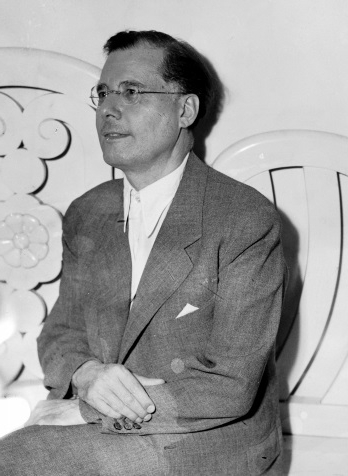 Karl Böhm (1894–1981), Austrian conductor.